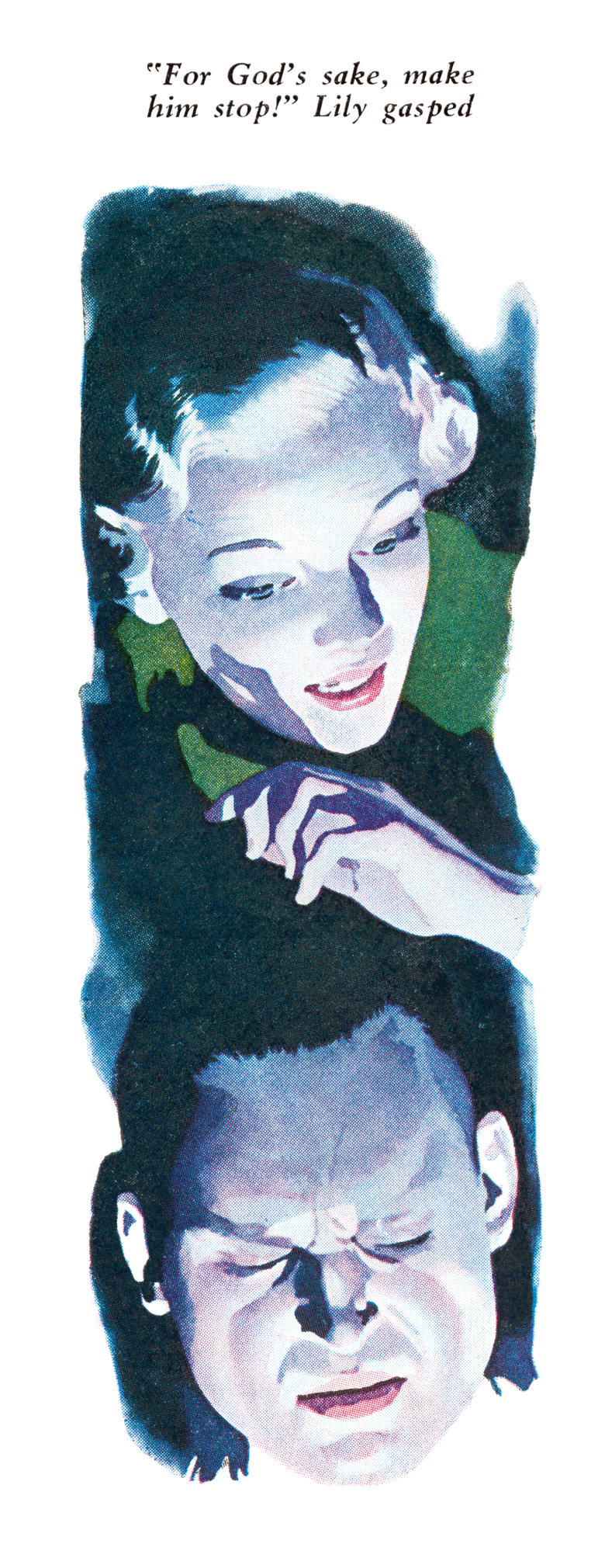 Illustration from The American Magazine abridged printing of Some Buried Caesar (1939), a Nero Wolfe novel by Rex Stout that first appeared under the title "The Red Bull"